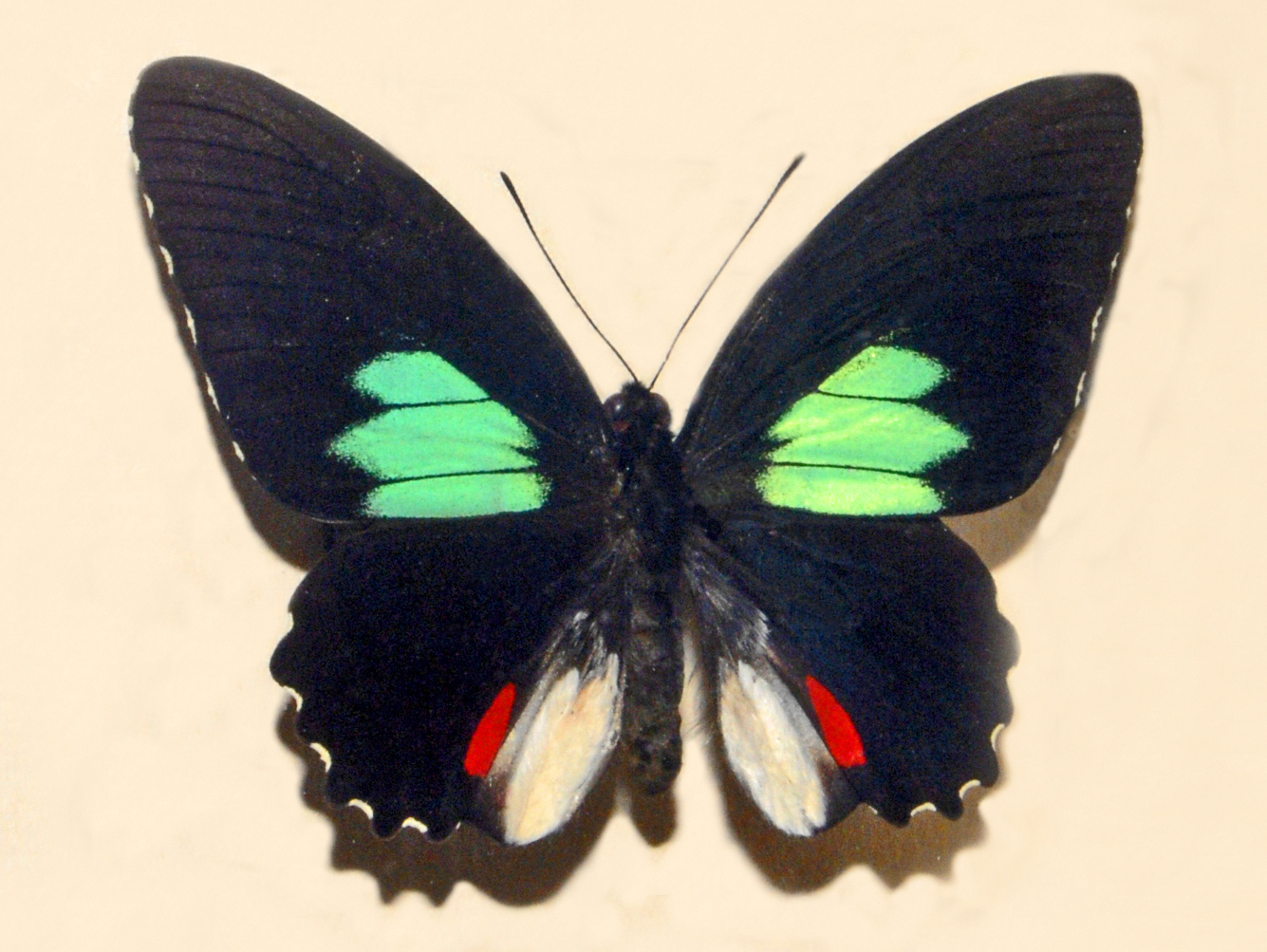 Mounted specimen of a male of Parides sesostris zestos on display at Museo di Scienze Naturali Enrico Caffi, Bergamo